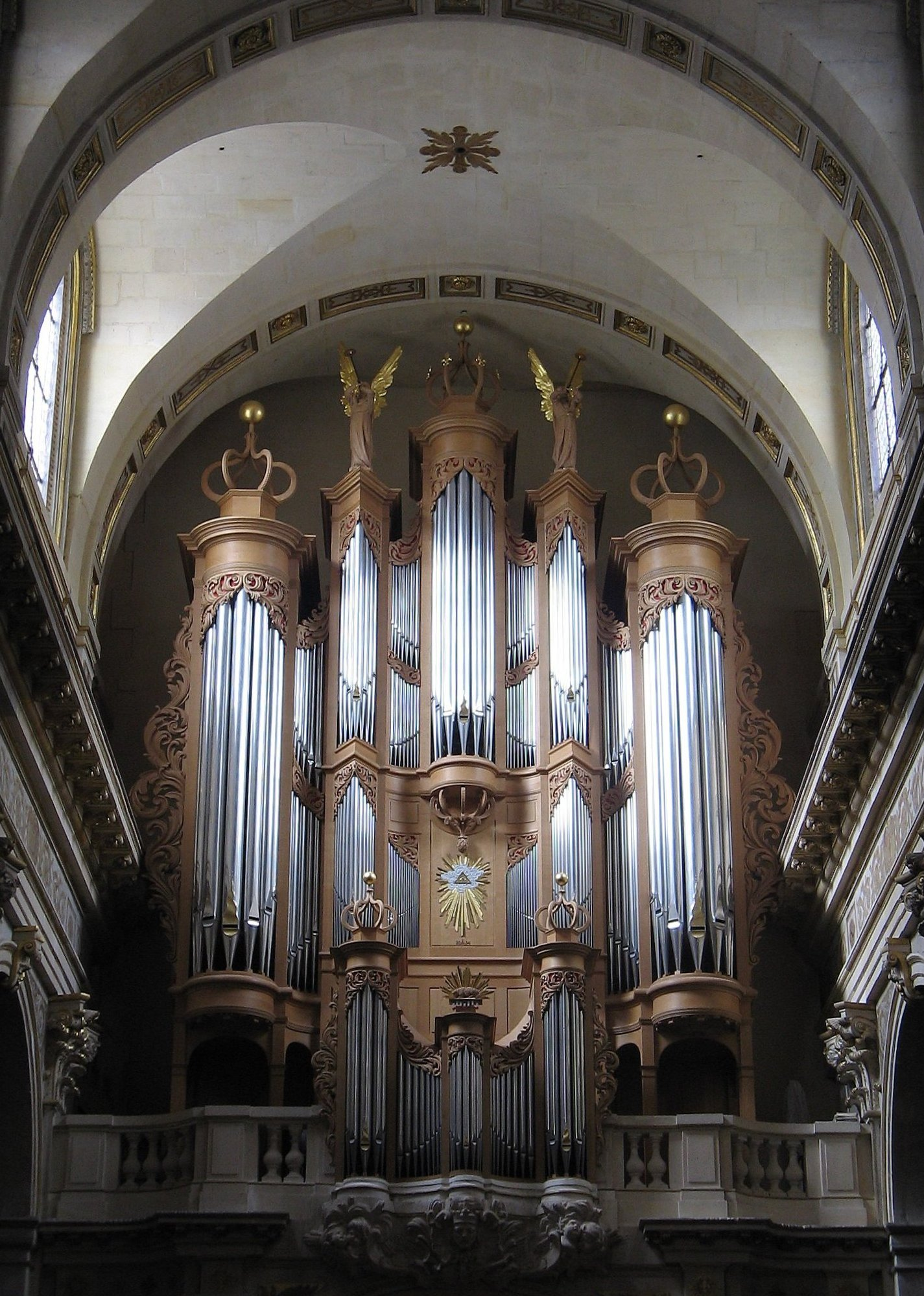 Église Saint-Louis-en-l'Île - Organ